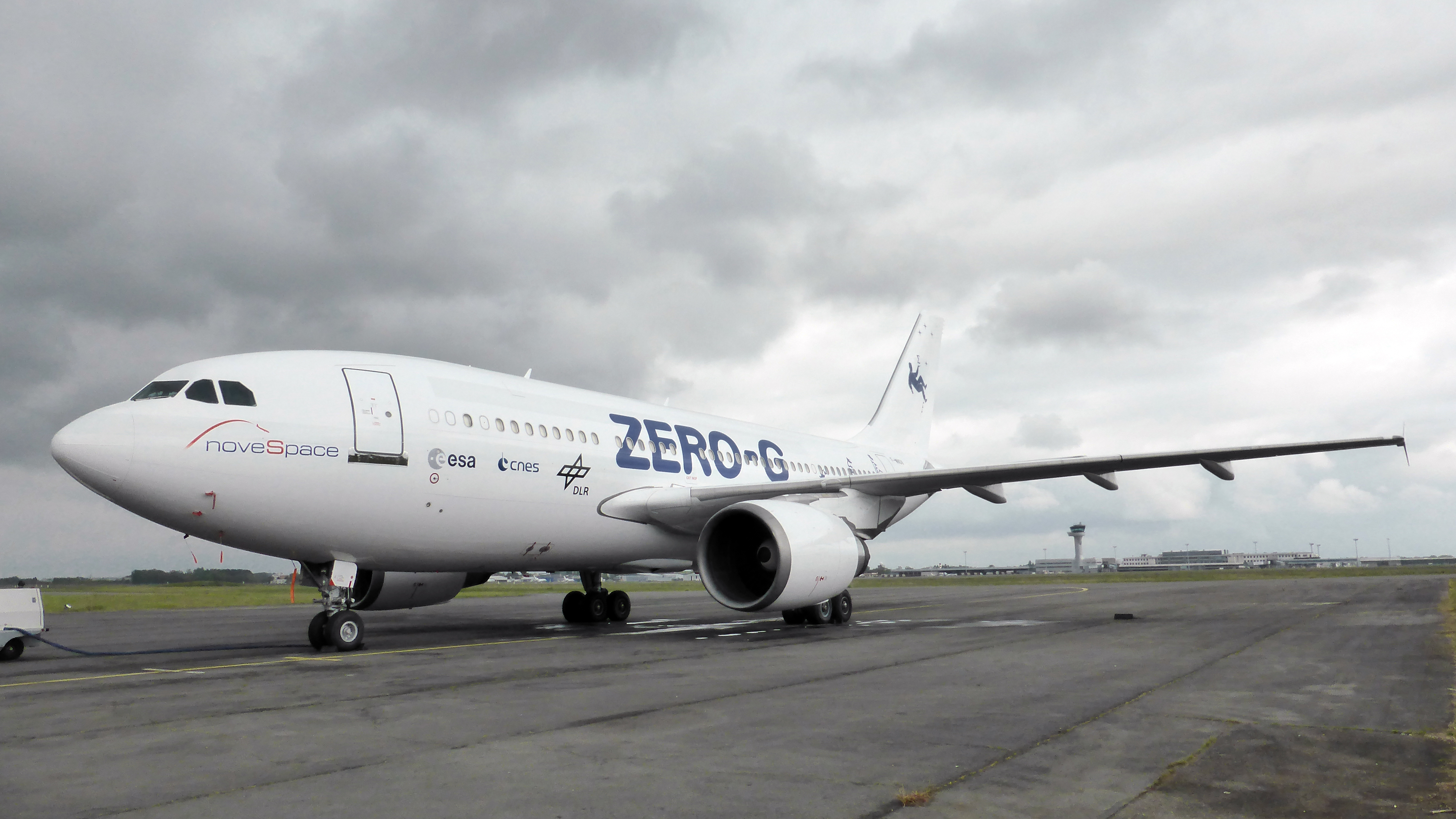 The new A310 ZERO-G. The plane was formally the VIP Plane of the German Goverment